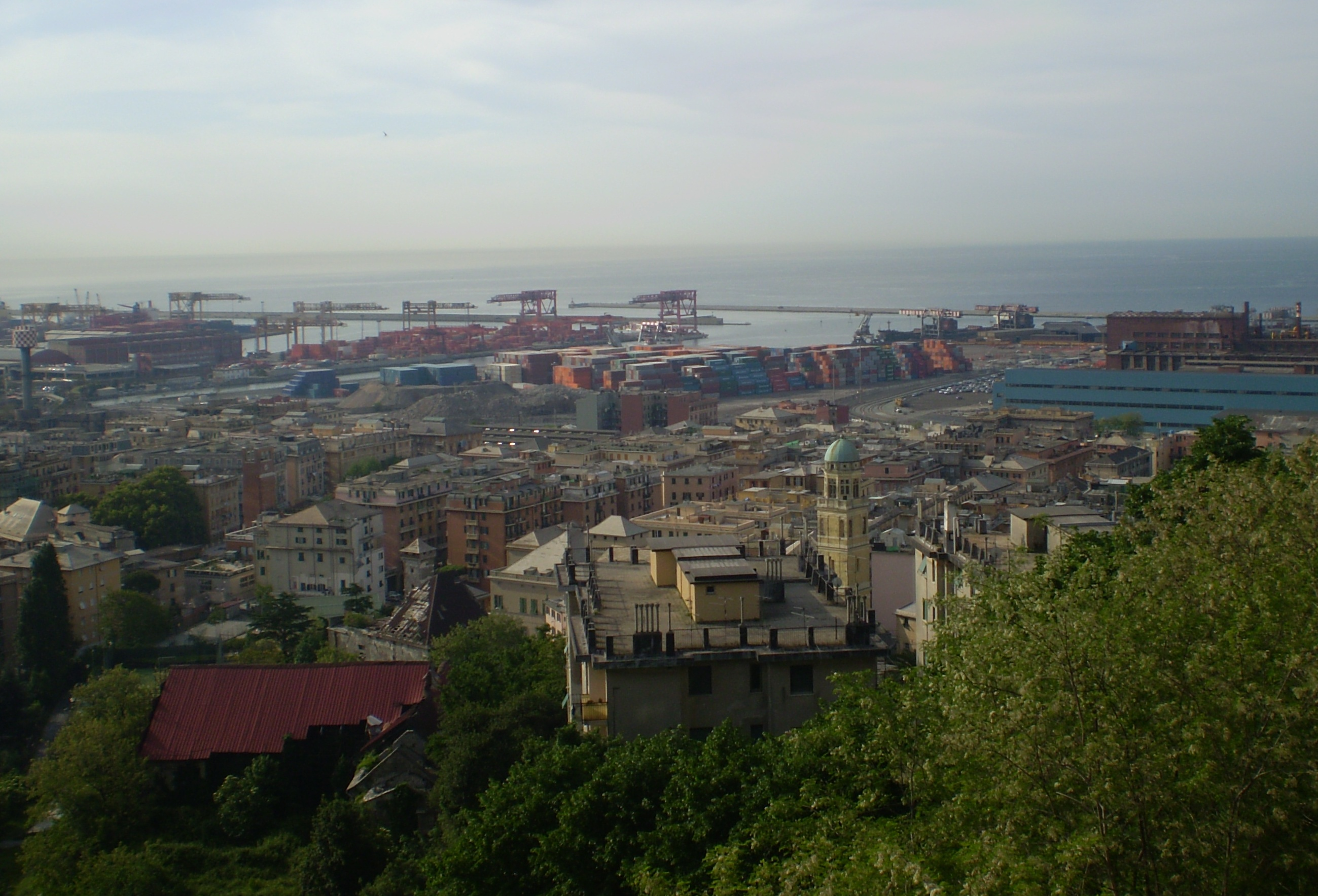 Panoramic view of Cornigliano, quarter of Genoa, Italy, from its hills